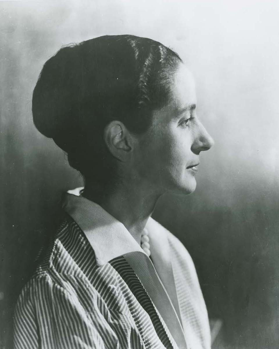 Description: Isabel Bishop specialized in depictions of independent and self-sufficient young female figures in urban, working class settings. While her subject matter and incorporation of broken graphic lines was thoroughly modern, her style of painting incorporated layers of transparent glazes to create figures of monumental presence was a reflection of the techniques of old master painters. In 1937 she was appointed as the first full-time female faculty member of the Art Students League, an important art school in New York City. Creator/Photographer: Peter A. Juley & Son Medium: Black and white photographic print Dimensions: 8 in x 10 in Culture: American Persistent URL: [1] Repository: Archives of American Art Native nameArchives of American ArtLocationWashington, D.C.Coordinates38° 53′ 52″ N, 77° 01′ 22″ W Established1954Website control : Q2860568 VIAF: 151134814 ISNI: 0000 0001 2185 0758 LCCN: n79065944 NLA: 35007823 GND: 1085306631 WorldCat Collection: Peter A. Juley & Son Collection - The Peter A. Juley & Son Collection is comprised of 127,000 black-and-white photographic negatives documenting the works of more than 11,000 American artists. Throughout its long history, from 1896 to 1975, the Juley firm served as the largest and most respected fine arts photography firm in New York. The Juley Collection, acquired by the Smithsonian American Art Museum in 1975, constitutes a unique visual record of American art sometimes providing the only photographic documentation of altered, damaged, or lost works. Included in the collection are over 4,700 photographic portraits of artists. Accession number: J0001217